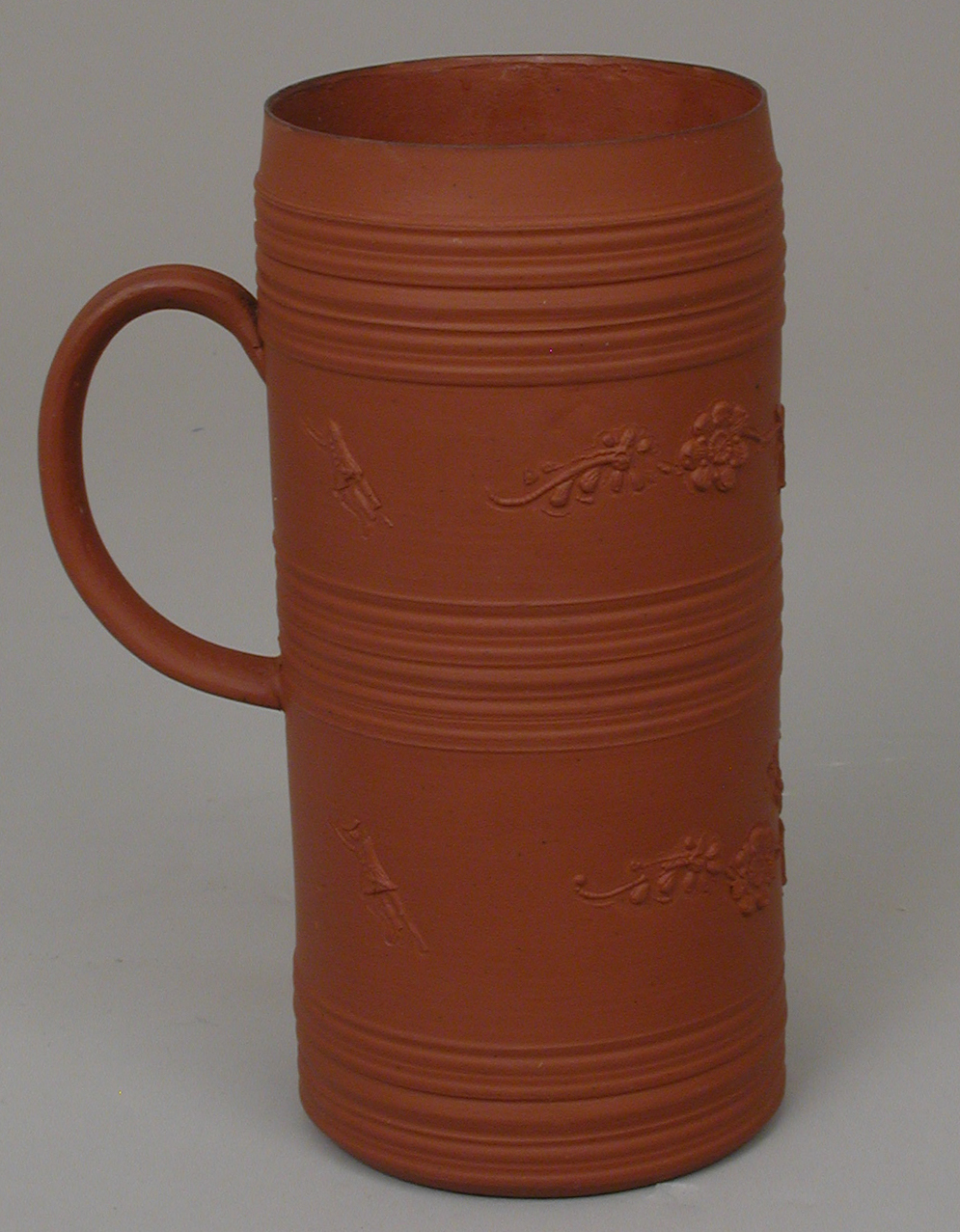 British, Staffordshire; Mug; Ceramics-Pottery